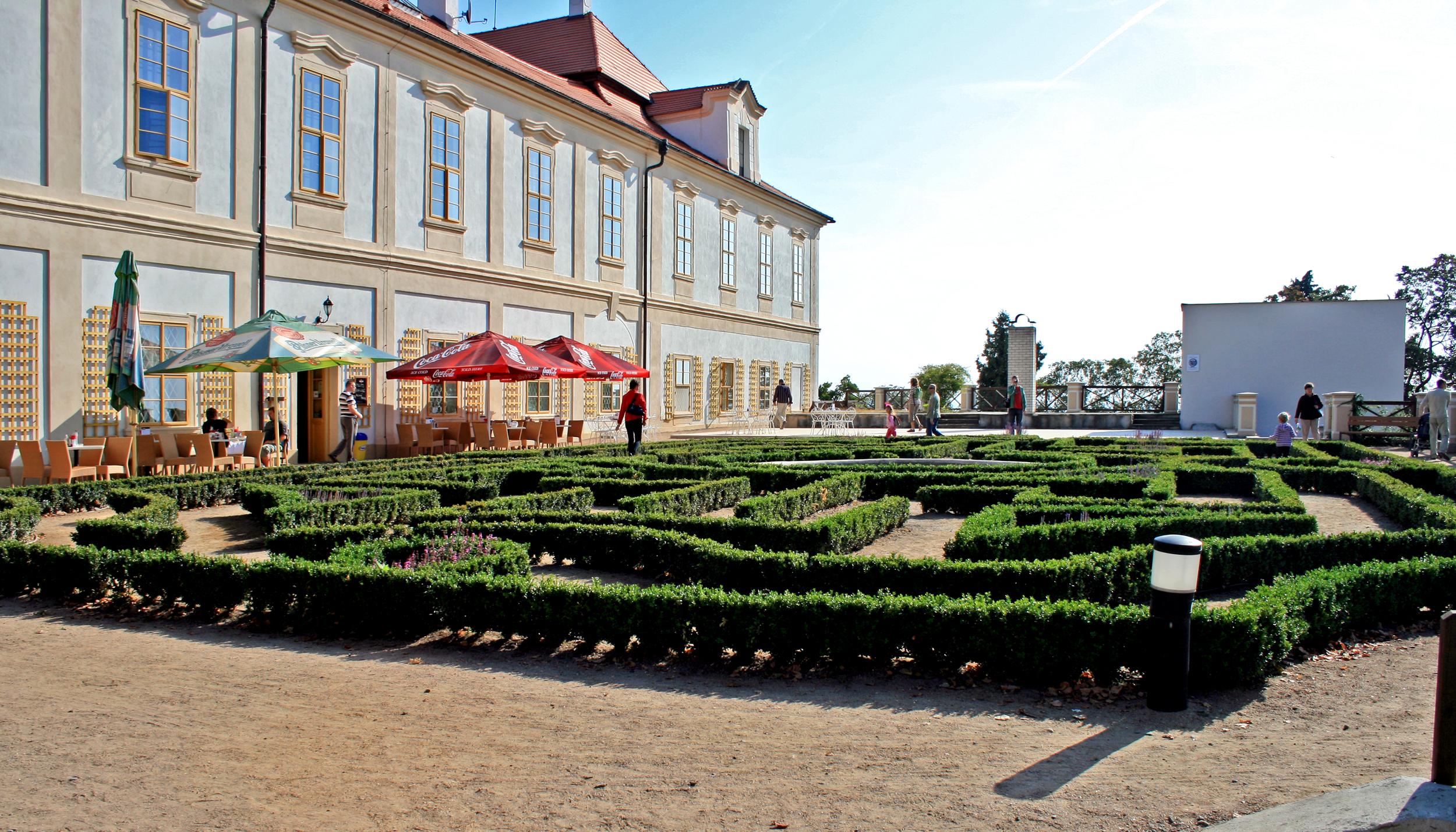 Castle Loučeň in central Bohemia, Czech Republic